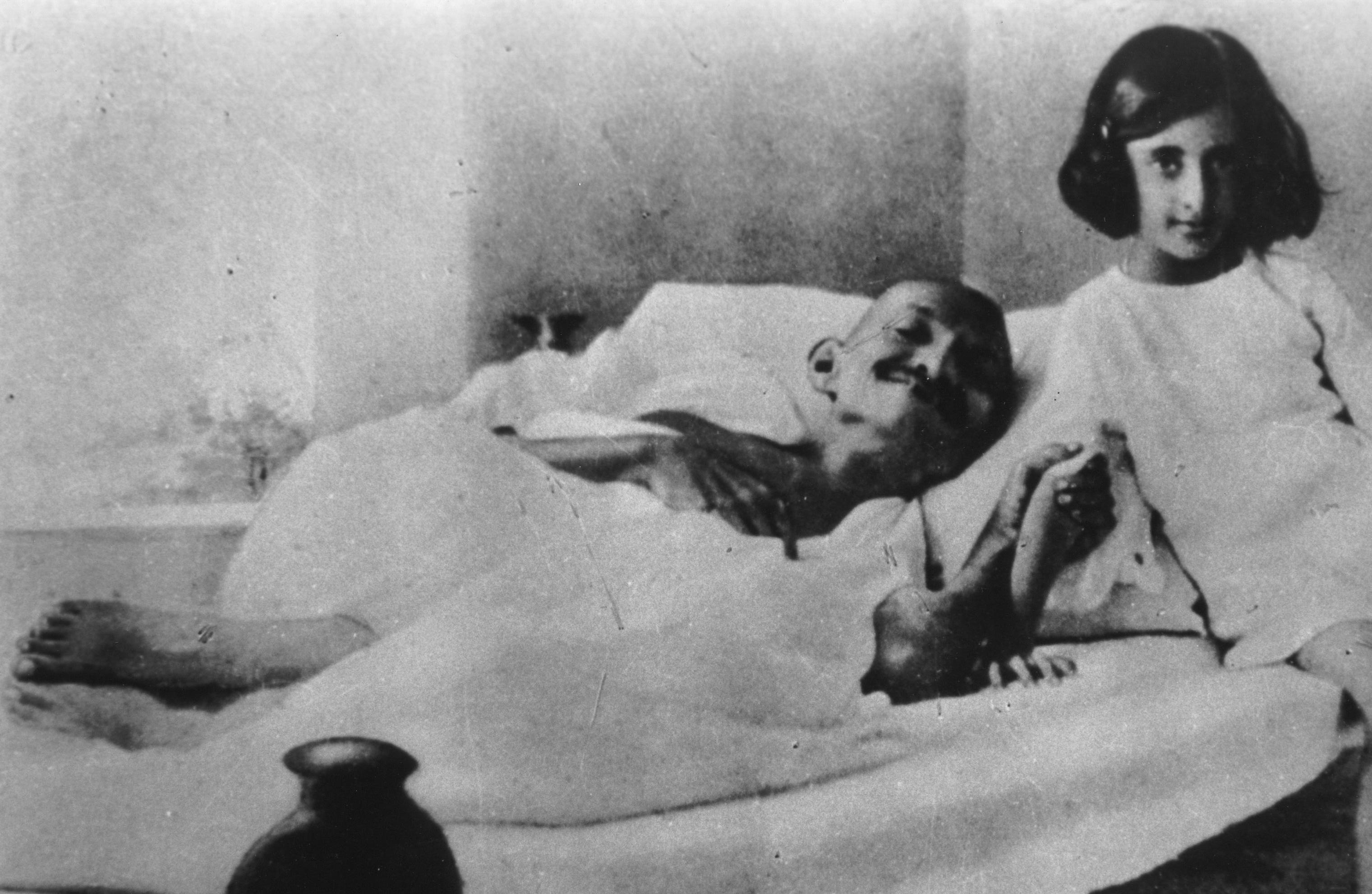 Gandhi fasting in 1924, and the young Indira, daughter of Nehru, who will be Prime Minister of India.